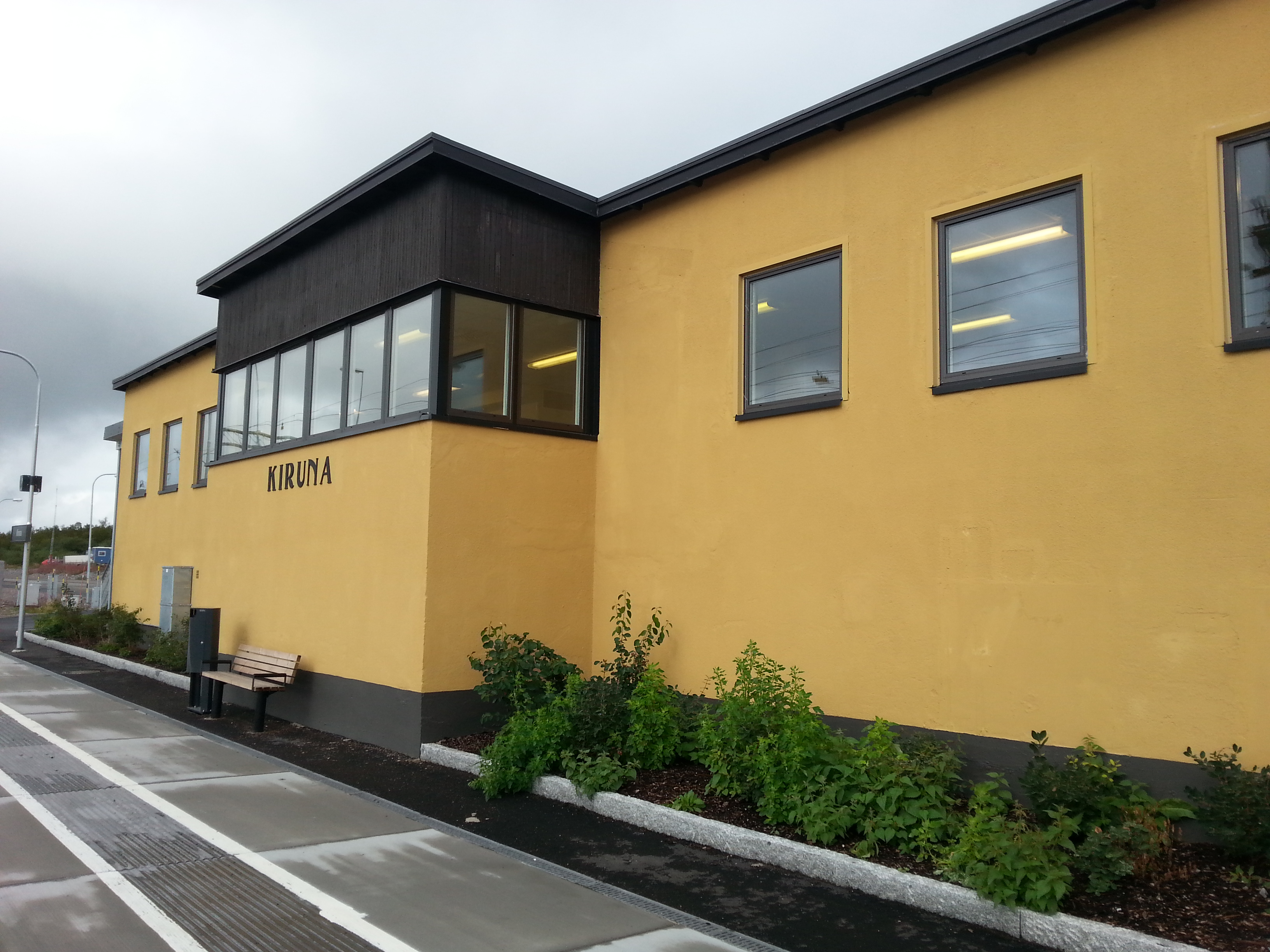 Kiruna nya järnvägsstation